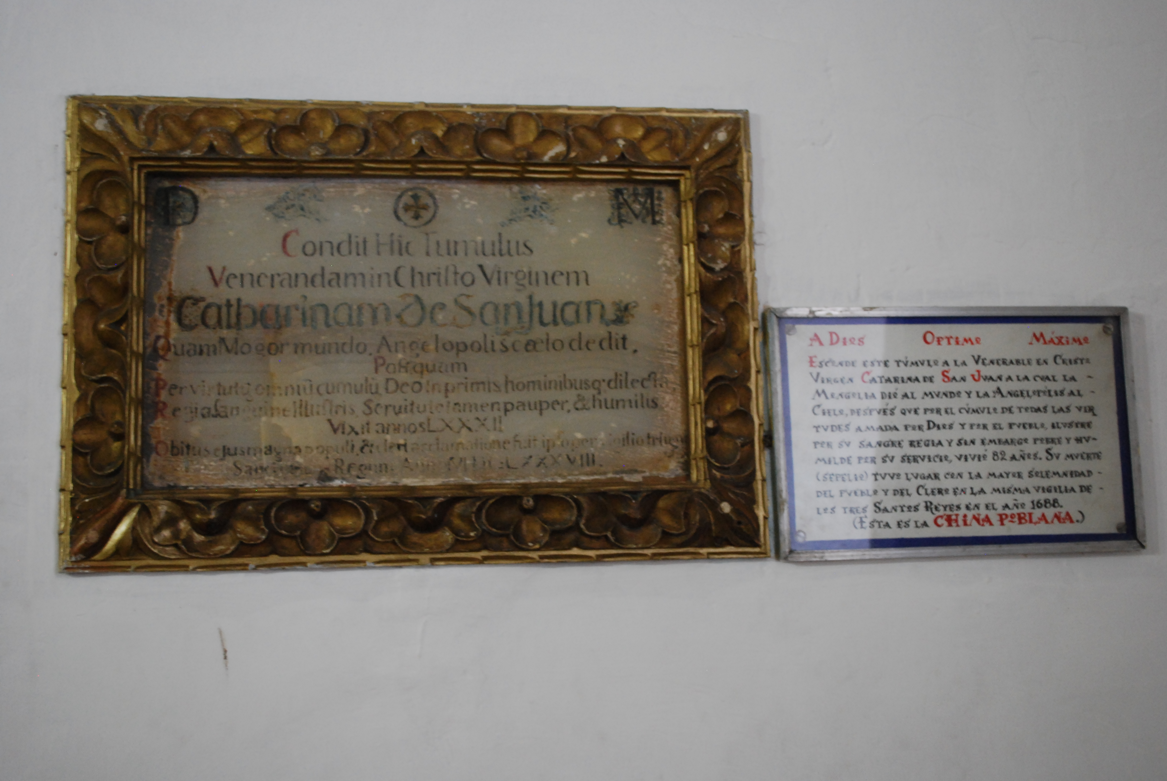 Crypt of the China Poblana at the La Compañia Church in Puebla, Mexico